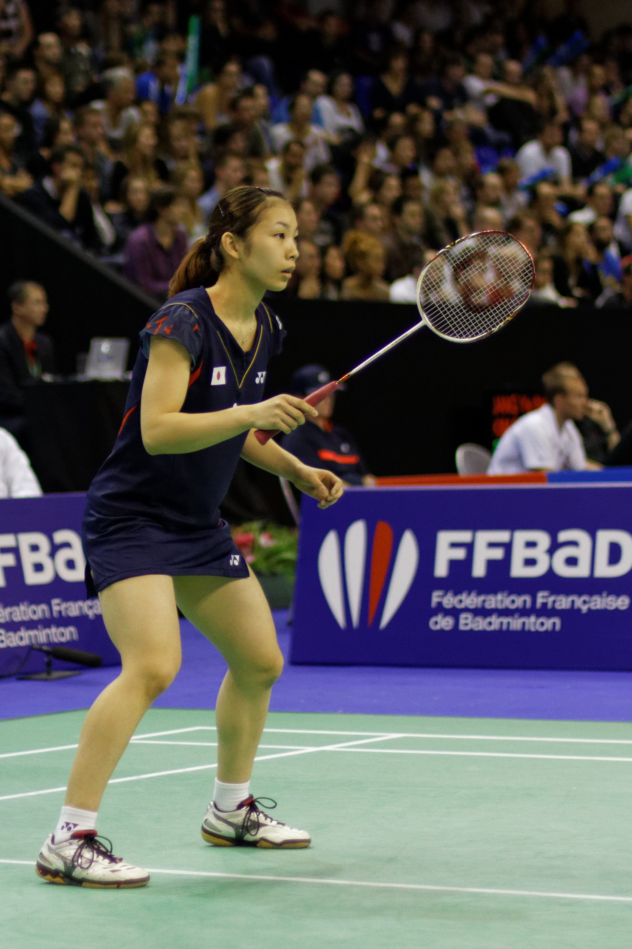 2013 French open. Women's doubles quarterfinal. Tian Qing and Zhao Yunlei vs Misaki Matsutomo and Ayaka Takahashi.